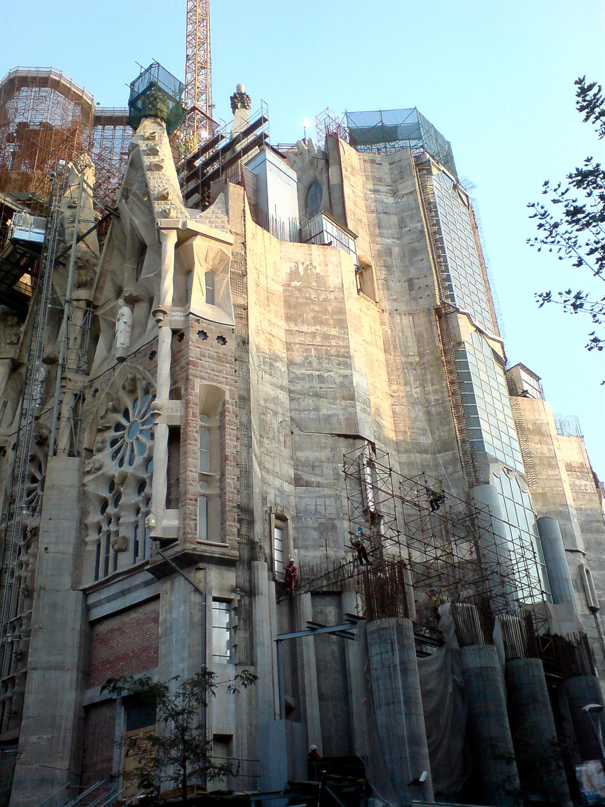 Glory facade of the Sagrada Familia